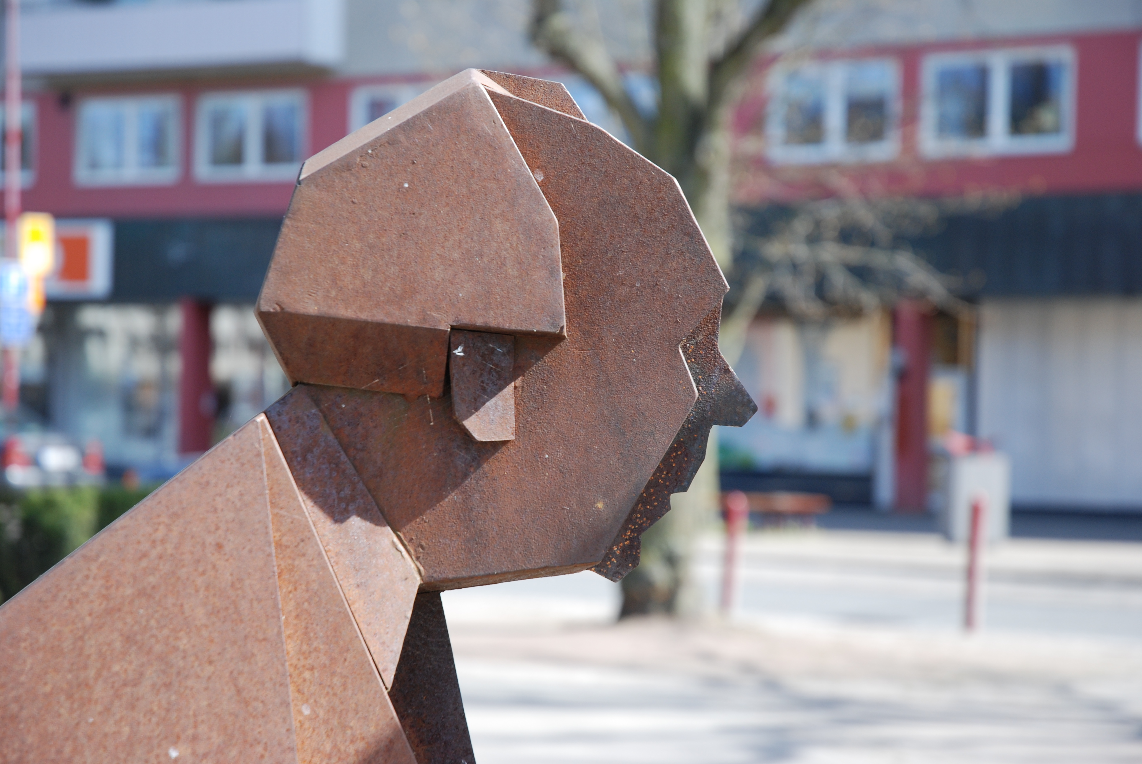 Writer Alf Henrikson. Detail of sculpture in CORTEN steel by Thomas Qvarsebo from 1998, located in Huskvarna, Sweden